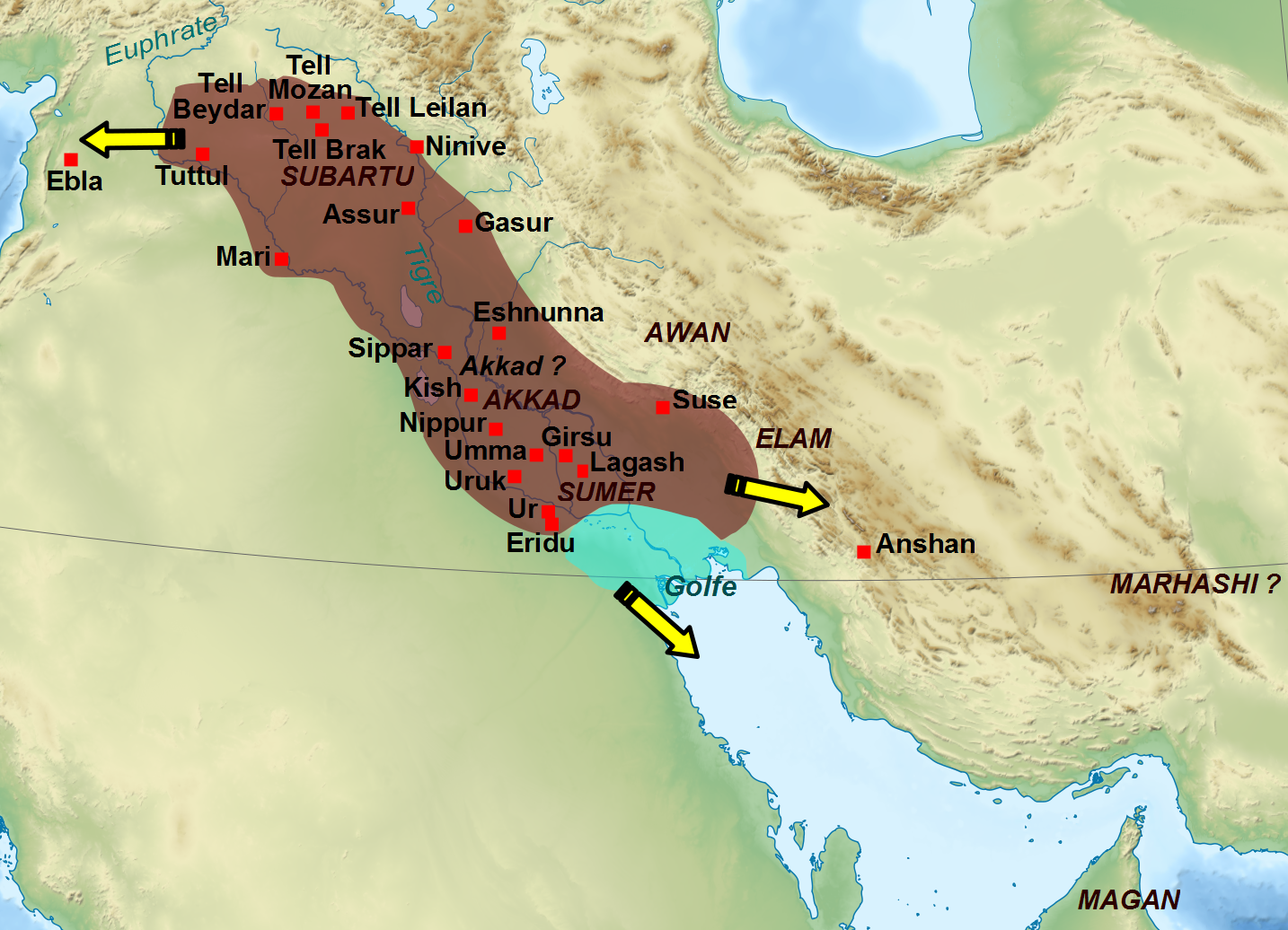 Map showing the approximate extension of the Akkad empire during the reign of Narâm-Sîn (2254-2218 B.C. in short chronology).